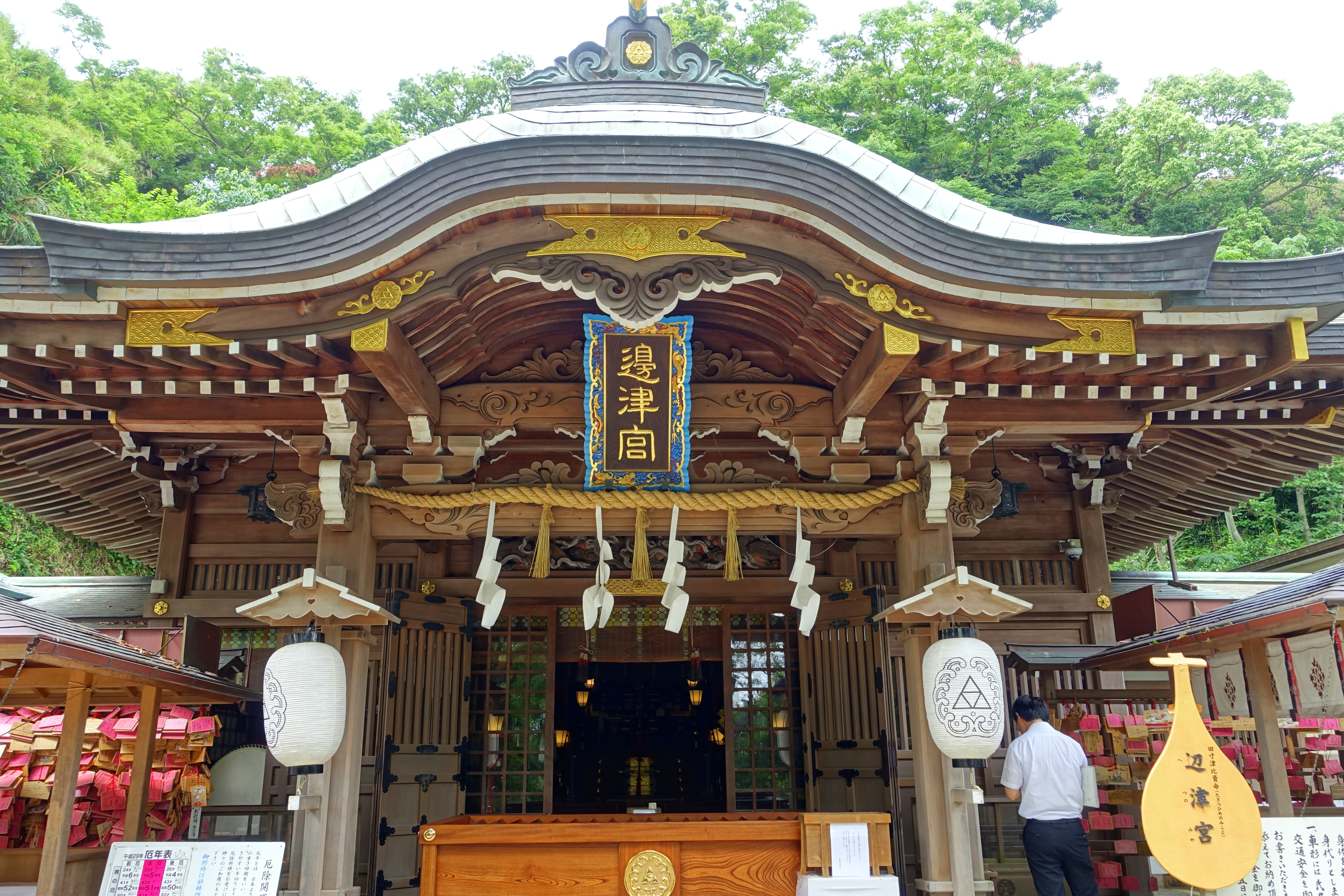 Enoshima, Japan.